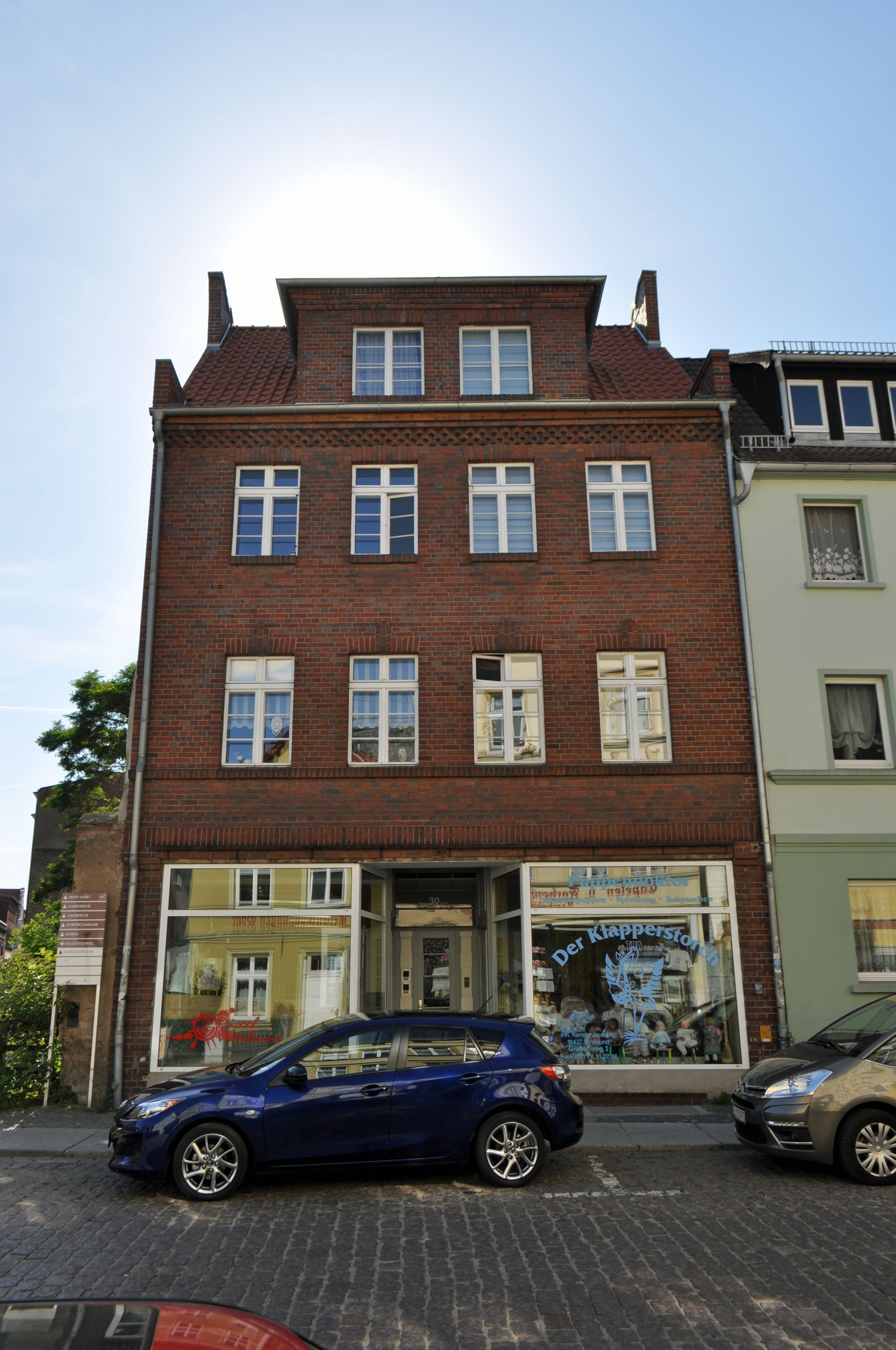 Stralsund, Wasserstraße 30 This is a photograph of an architectural monument.